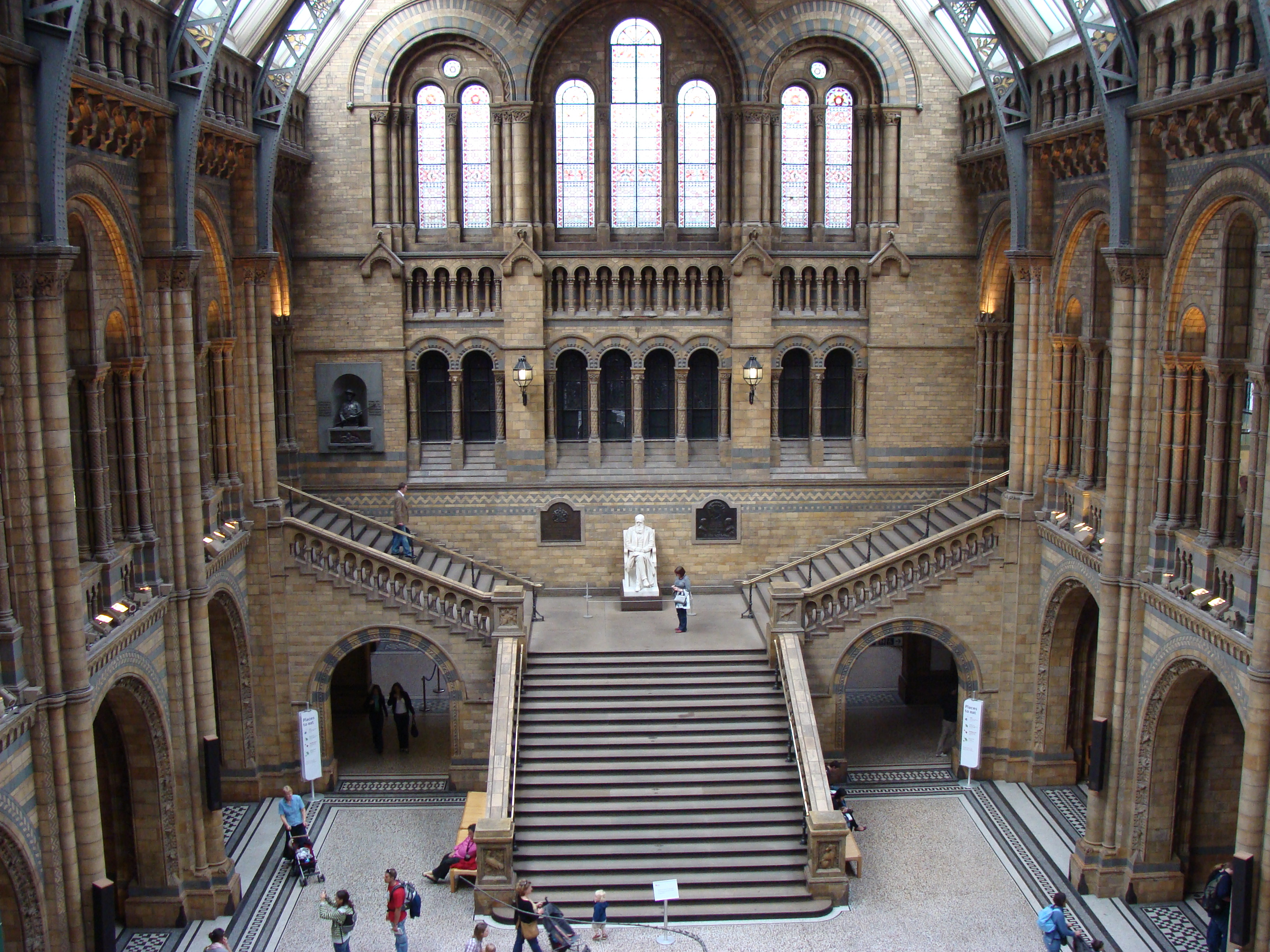 Natural History Museum of London